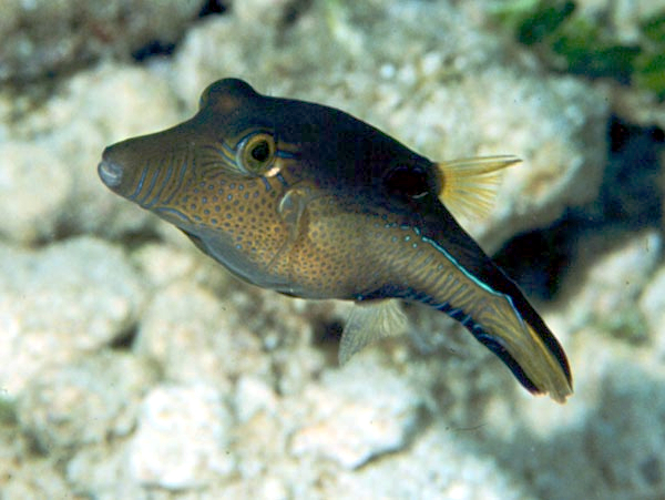 Sharpnose puffer fish (Canthigaster rostrata)